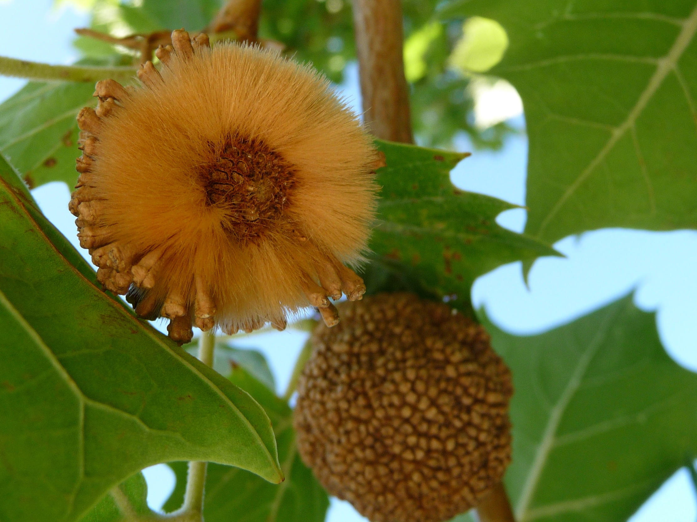 Platanus sp. (likely P. × hispanica, not definitely P. occidentalis) seeds